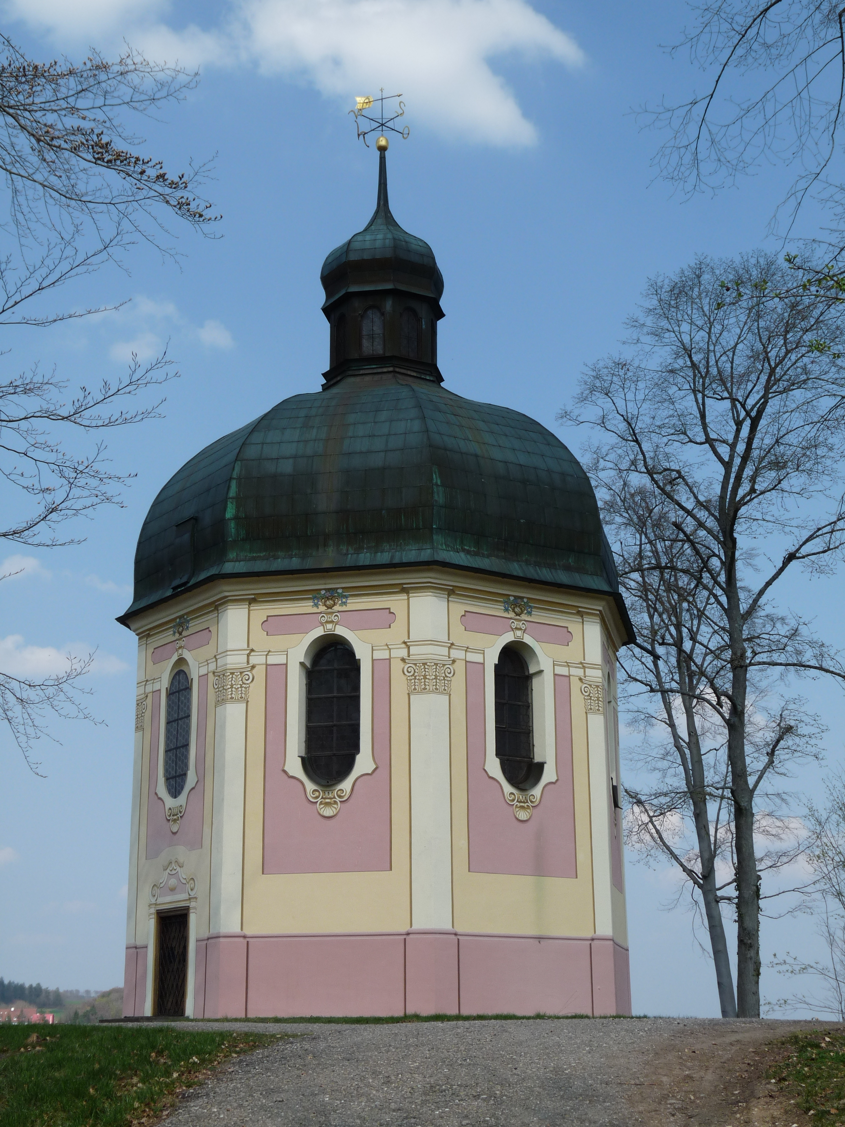 Chapel of St. Joseph in Sigmaringen, Germany